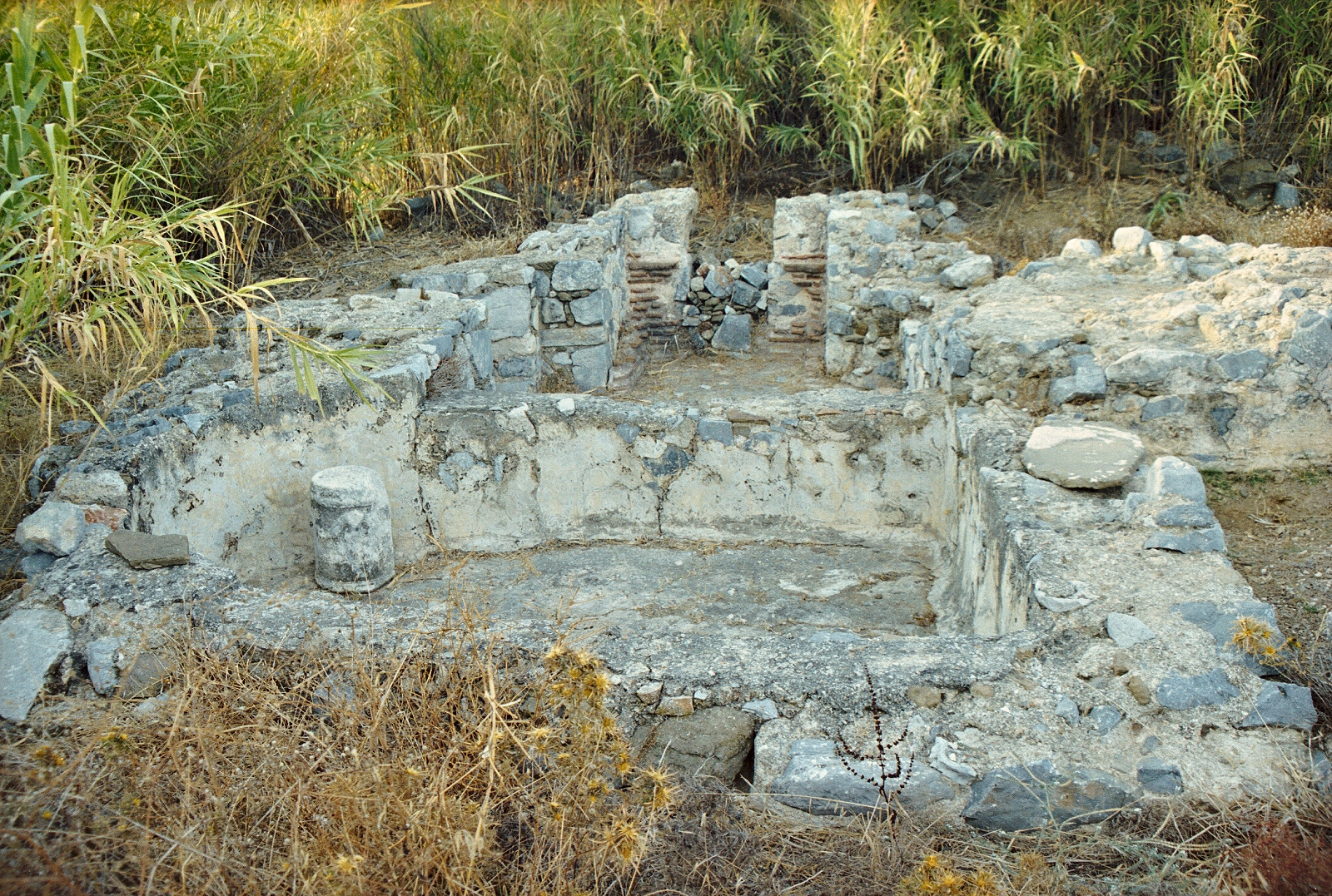 Excavations in Maltezana (Astypalaia), 1996. Ancient Greek temple - or a Roman bath - or early Christian church and baptisterion?